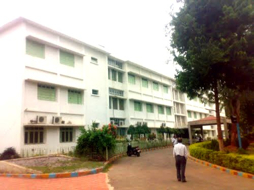 Delhi Public School, Rourkela